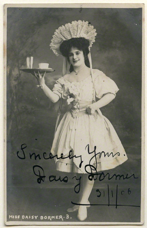 Daisy Dormer by unknown photographer, matte bromide postcard print, 1906